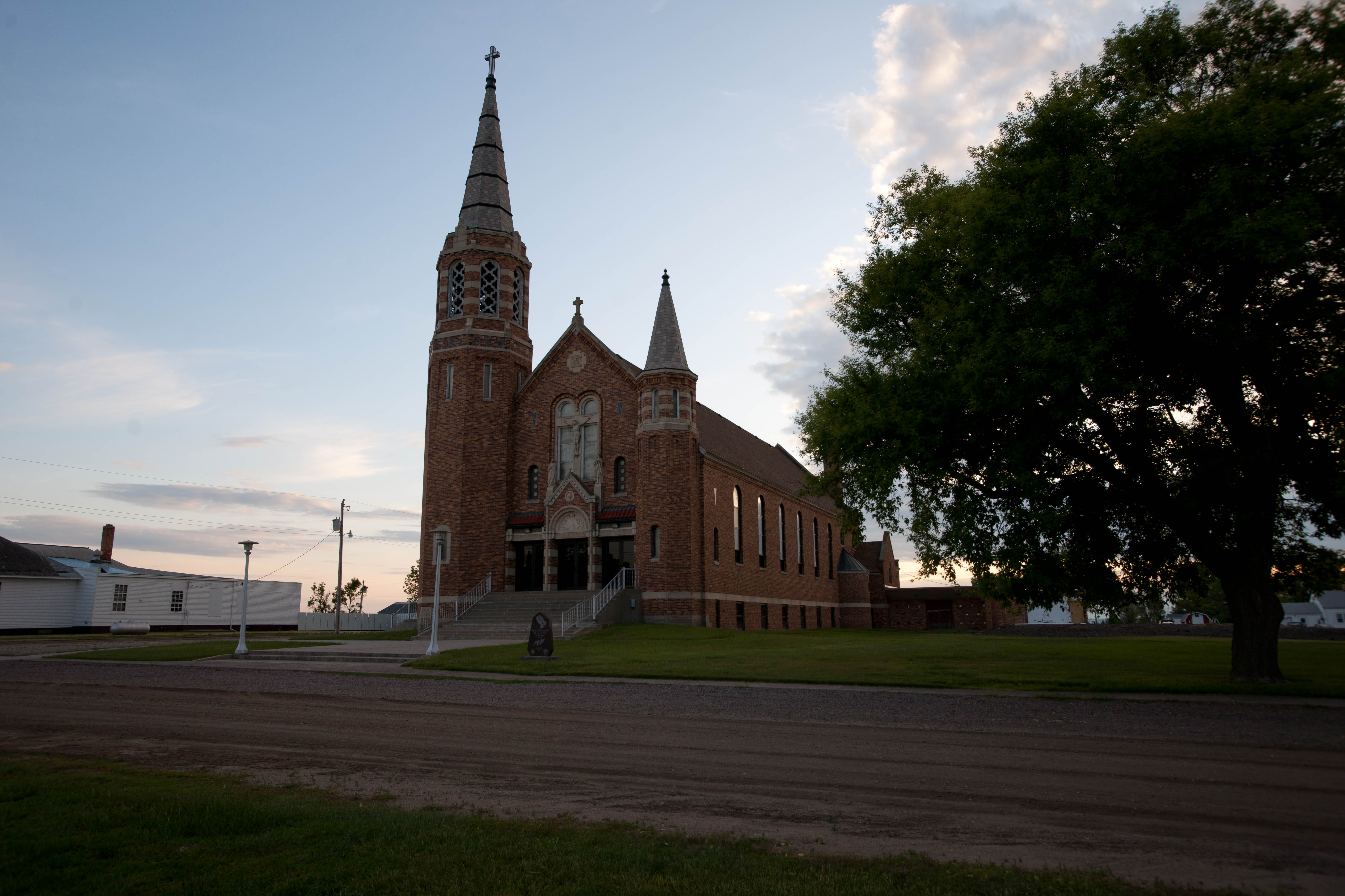 St. Mary's Church, one of two sites in the St. Mary's Church Non-Contiguous Historic District in Hague, North Dakota, listed on the National Register of Historic Places.